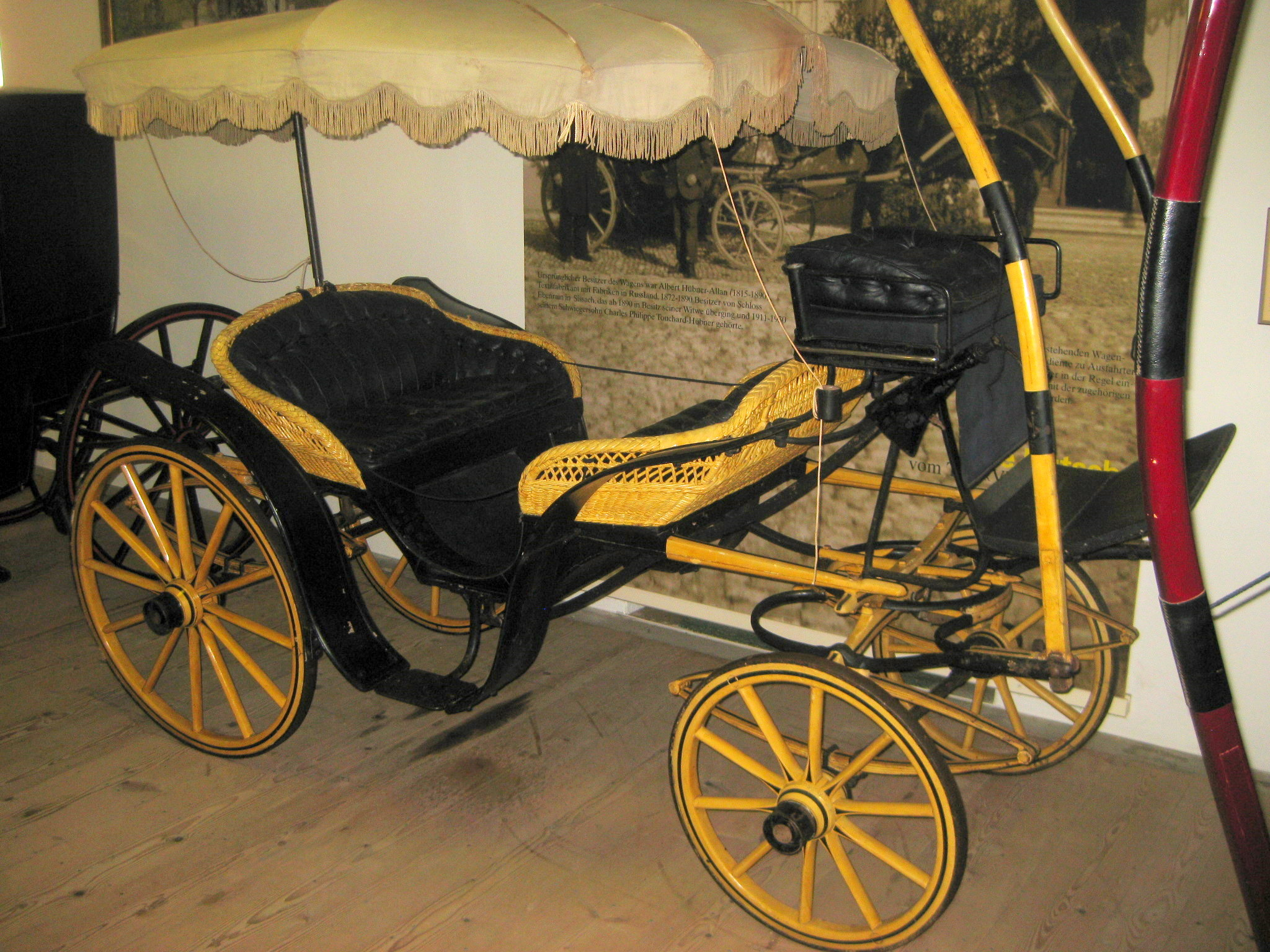 Coach and Carriage Museum,(Basel Historical Museum), Münchenstein, Vis a Vis